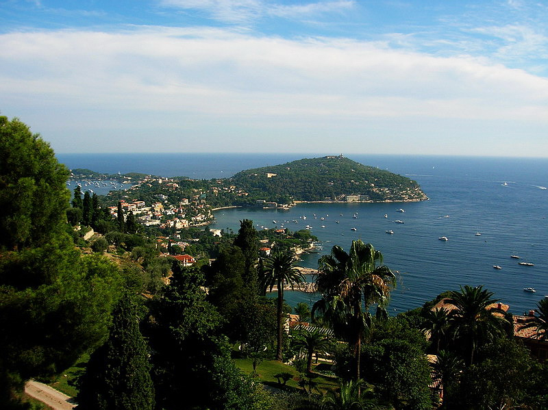 Saint-Jean-Cap-Ferrat, France